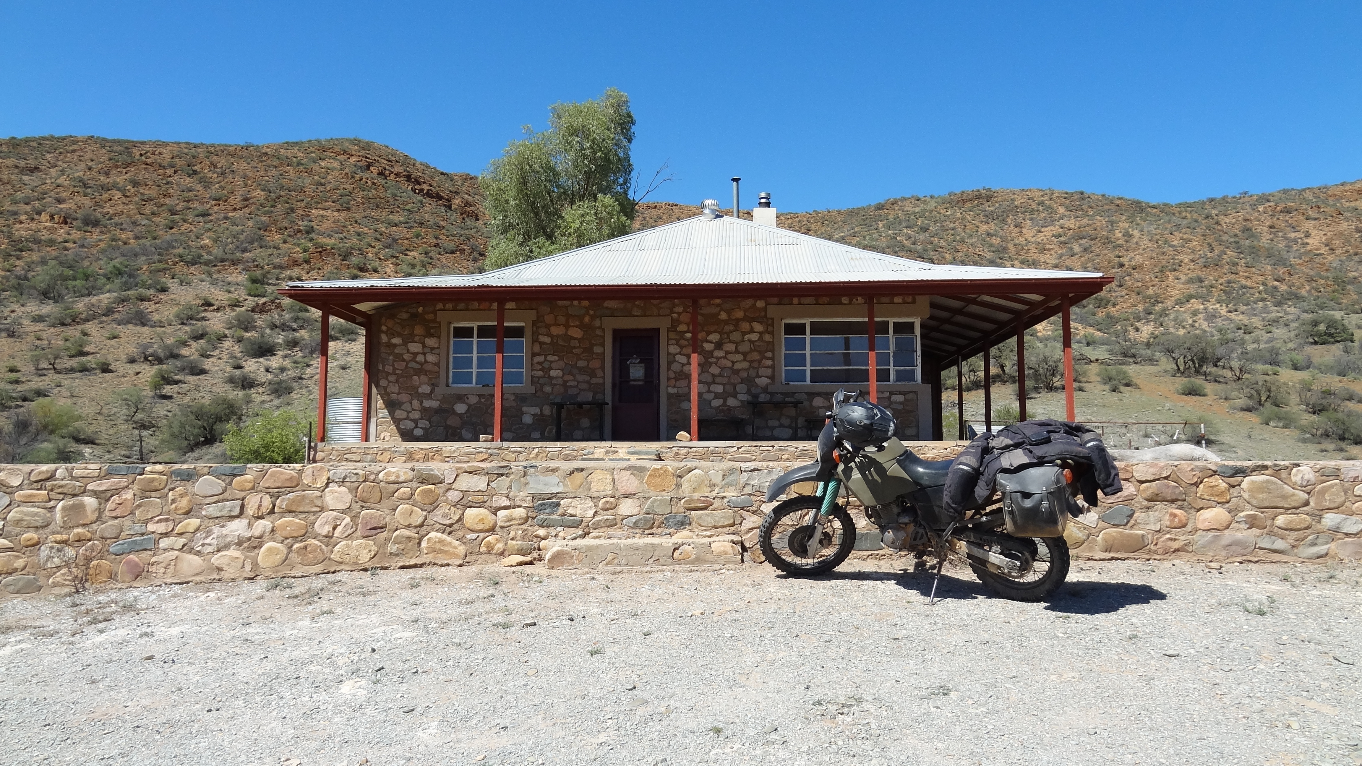 A typical hut in Arkaroola, South Australia.